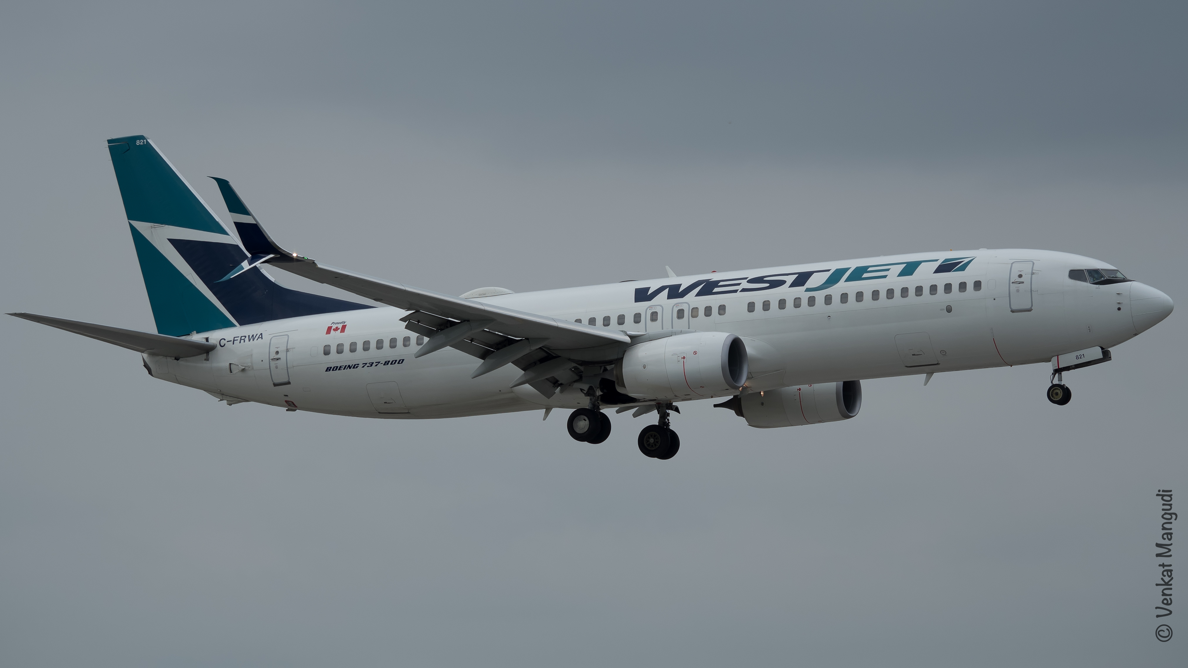 Plane Spotting in MIA